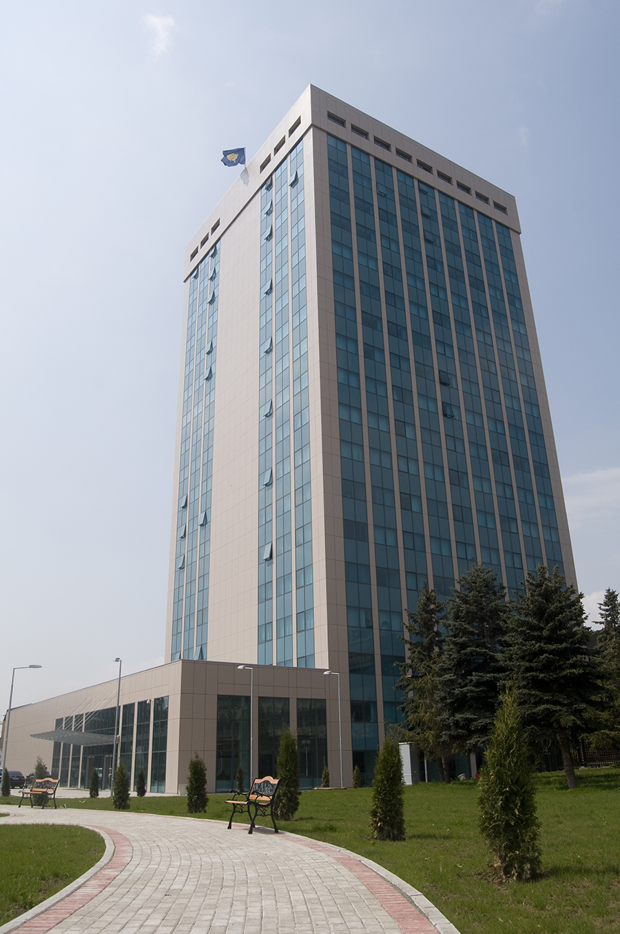 Government of Republic of Kosovo